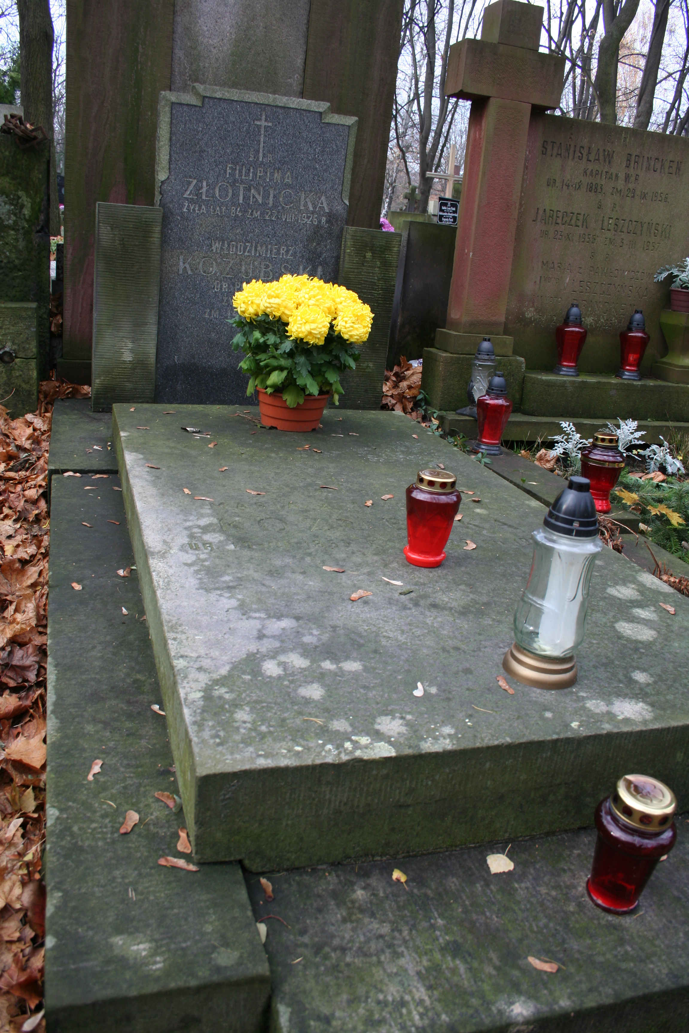 Grave of Włodzimierz Kozubski at Powązki Cemetery in Warsaw, Poland